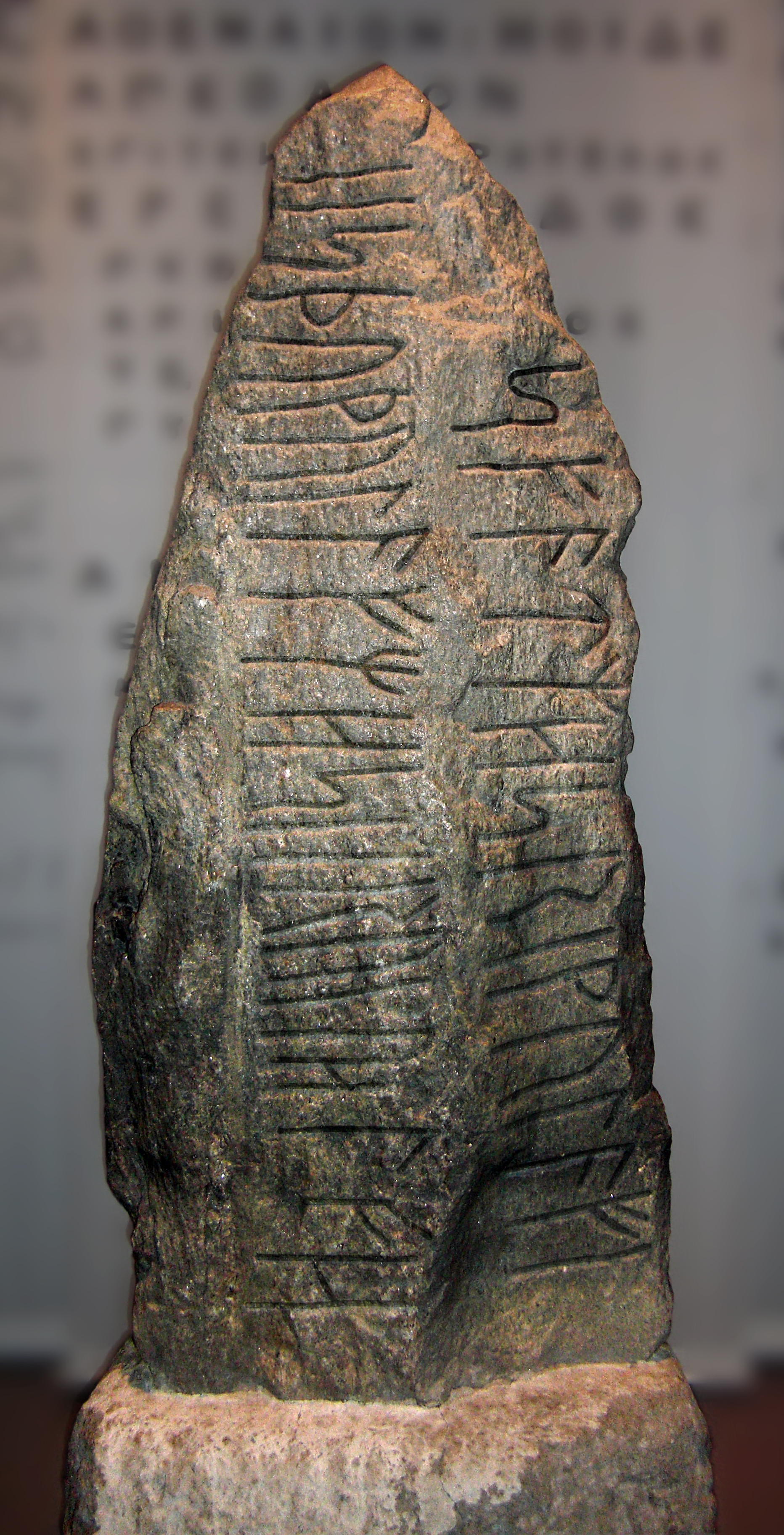 The Istaby Runestone from Blekinge. The inscription says: "AfatR hAriwulafa hAþuwulafR hAeruwulafiR warAit runAR þAiAR", which means something like "After Harewolf, Hathowolf, Haerowolf's son, wrote runes these"